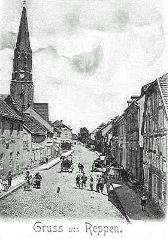 Reppen about 1900.